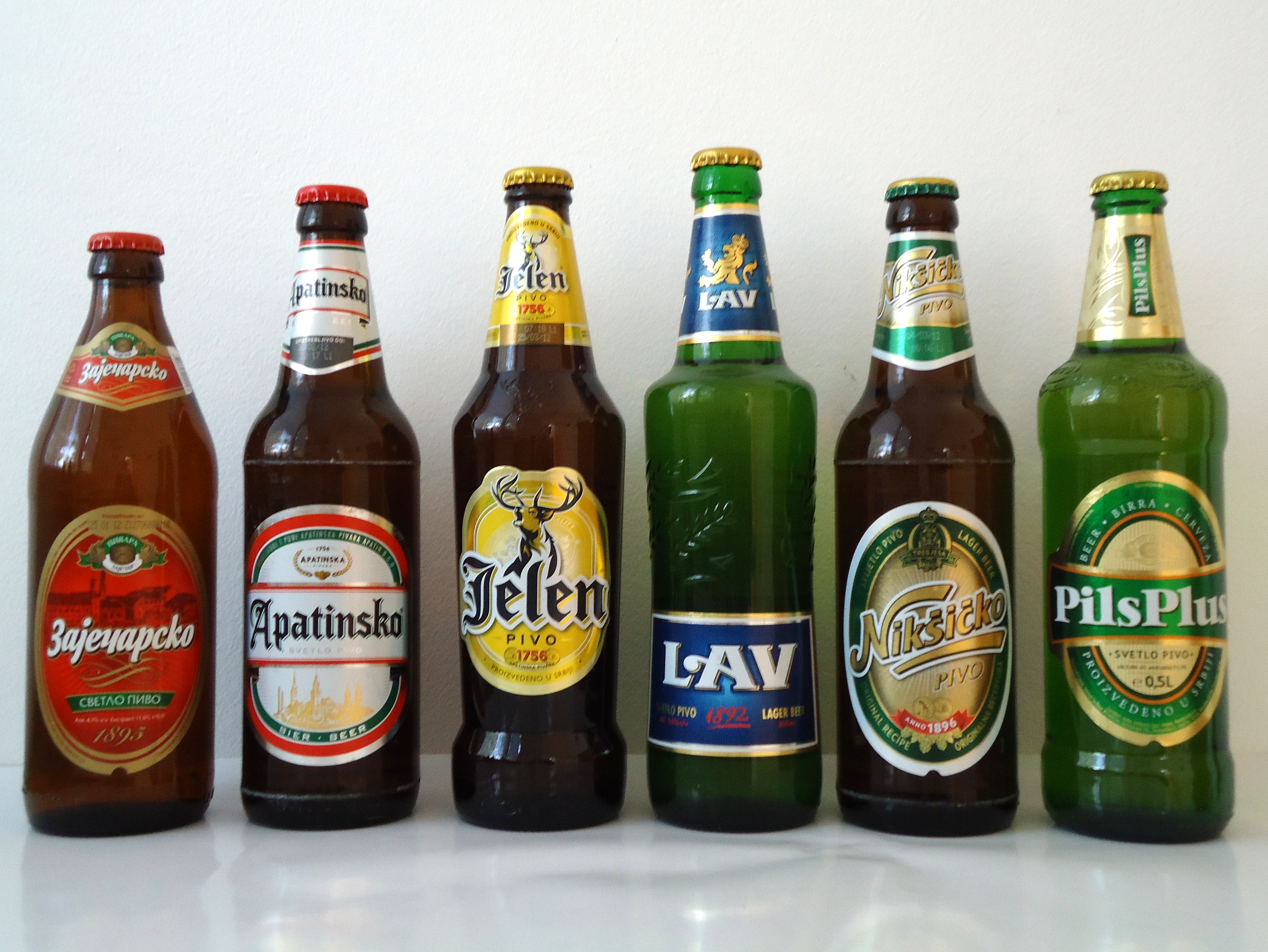 Serbian beers